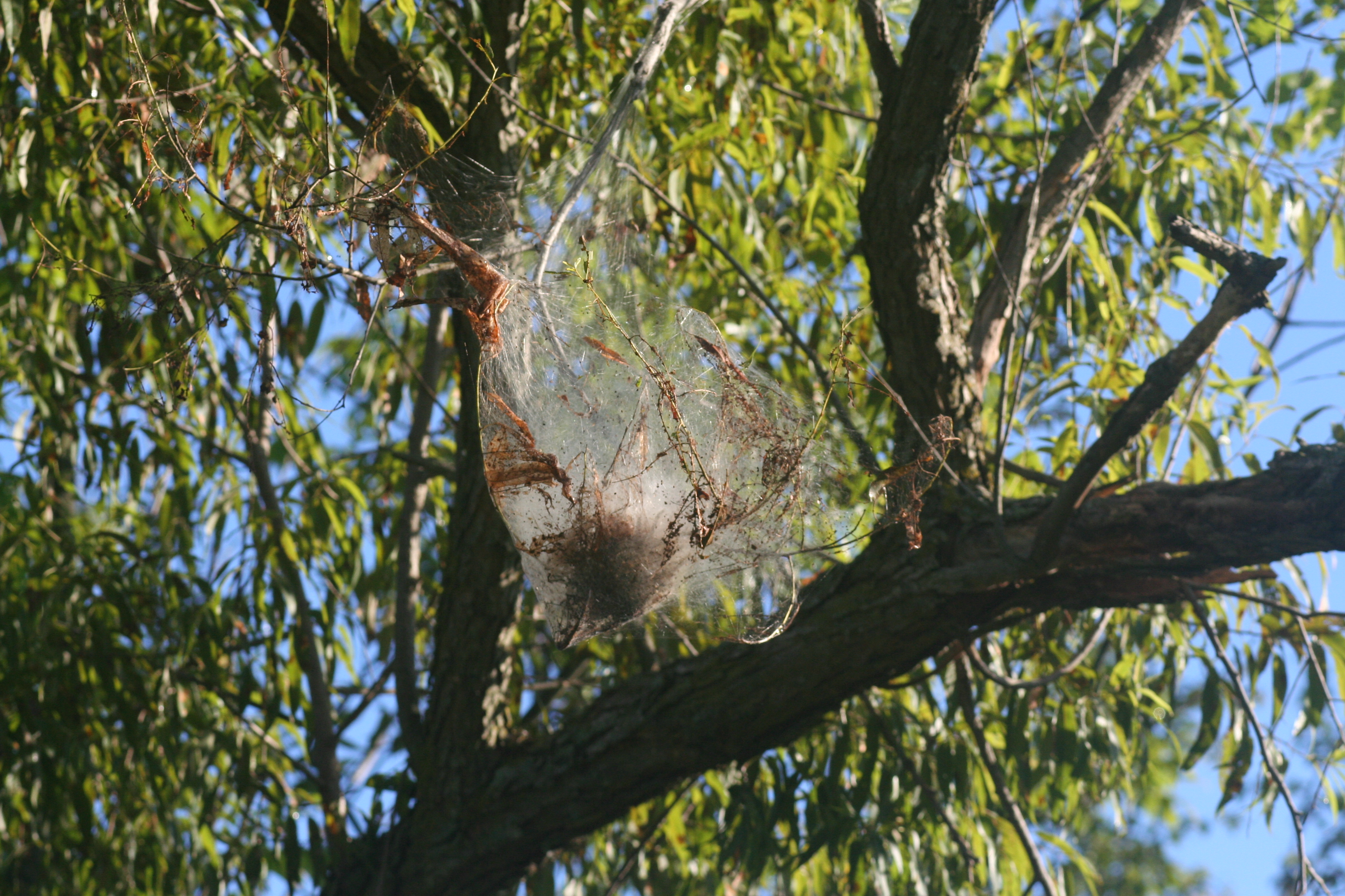 Web of Hyphantria cunea fall webworm